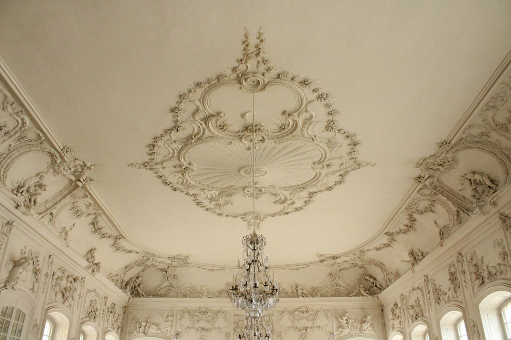 Room of the Rundāle Palace with the ornaments in ceiling without any paint but white. This room is just called The White Room.